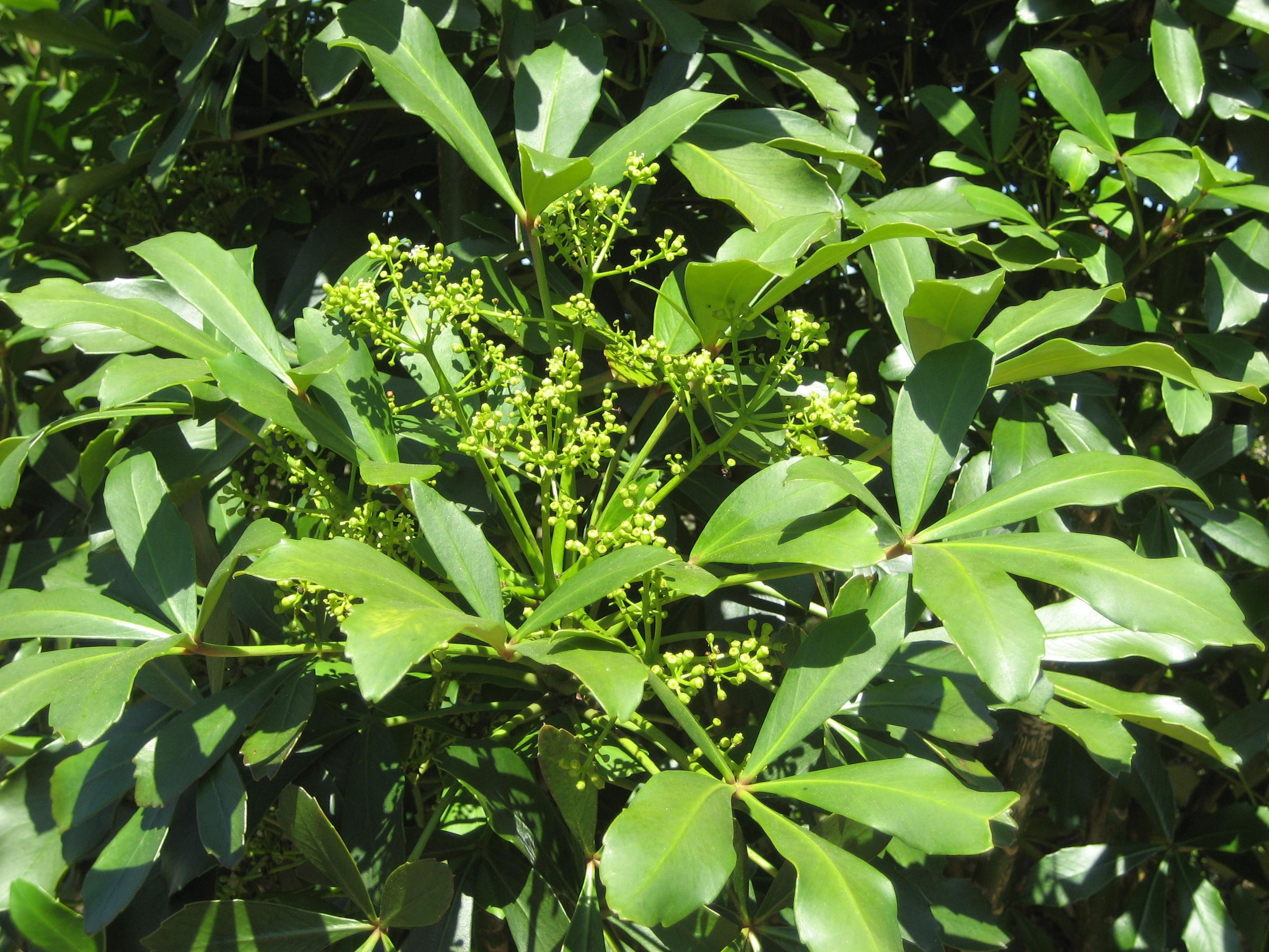 Foliage and immature fruit of Houpara, Pseudopanax lessonii, Auckland New Zealand